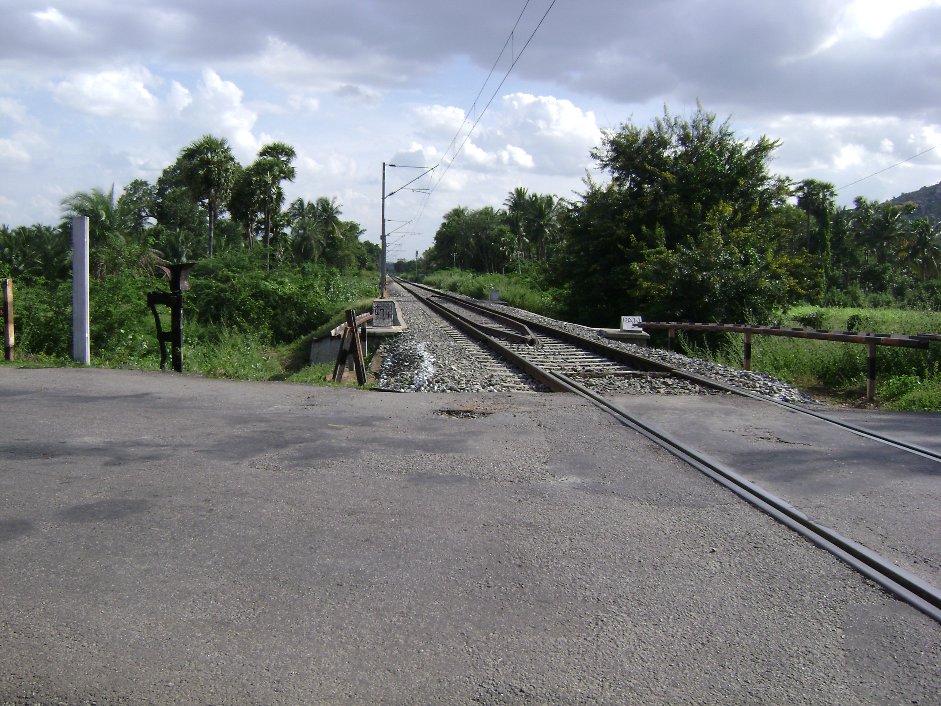 Junction of NH4 and railway line